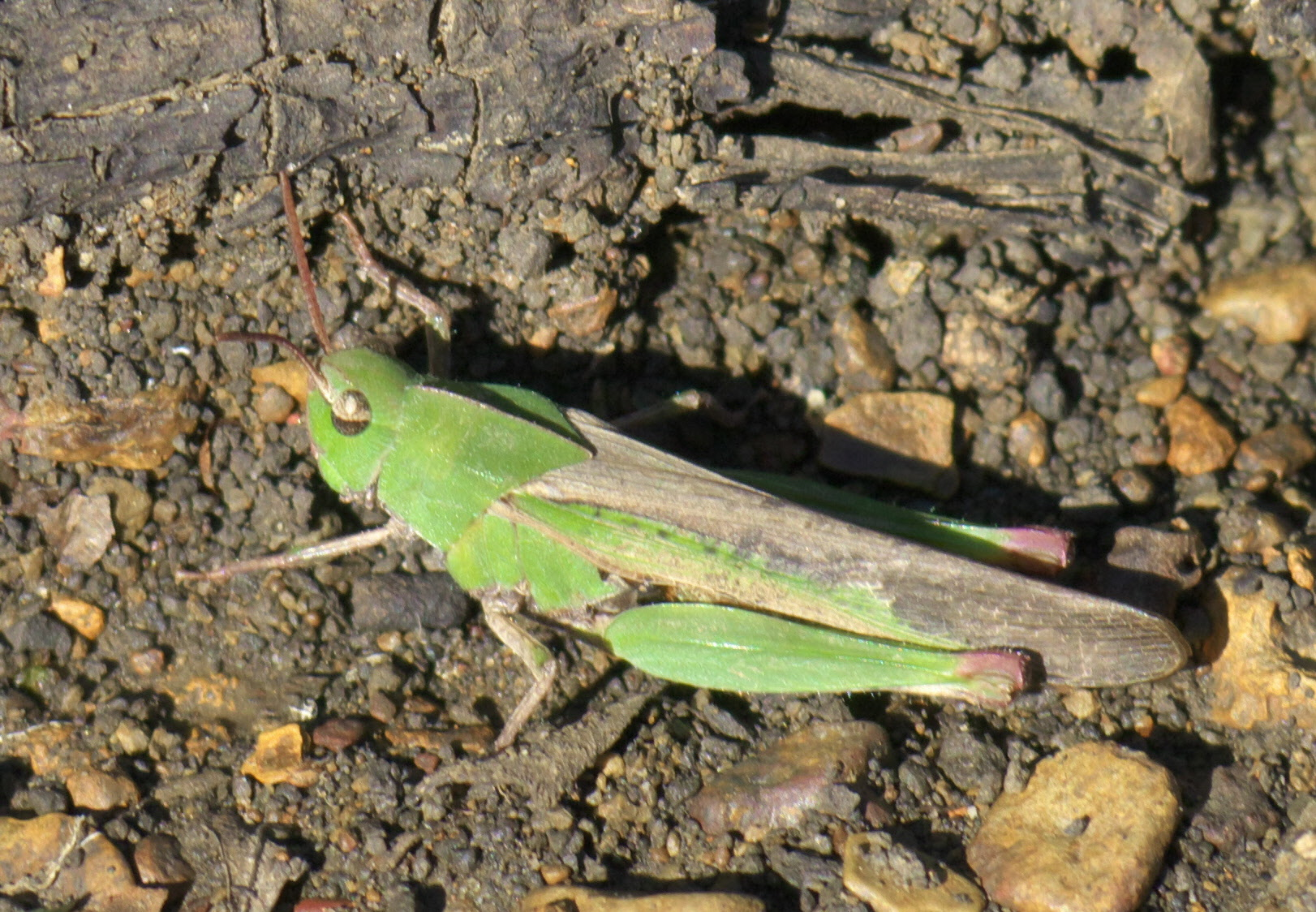 Chortophaga viridifasciata, Green-striped Grasshopper, ID Confidence: 95